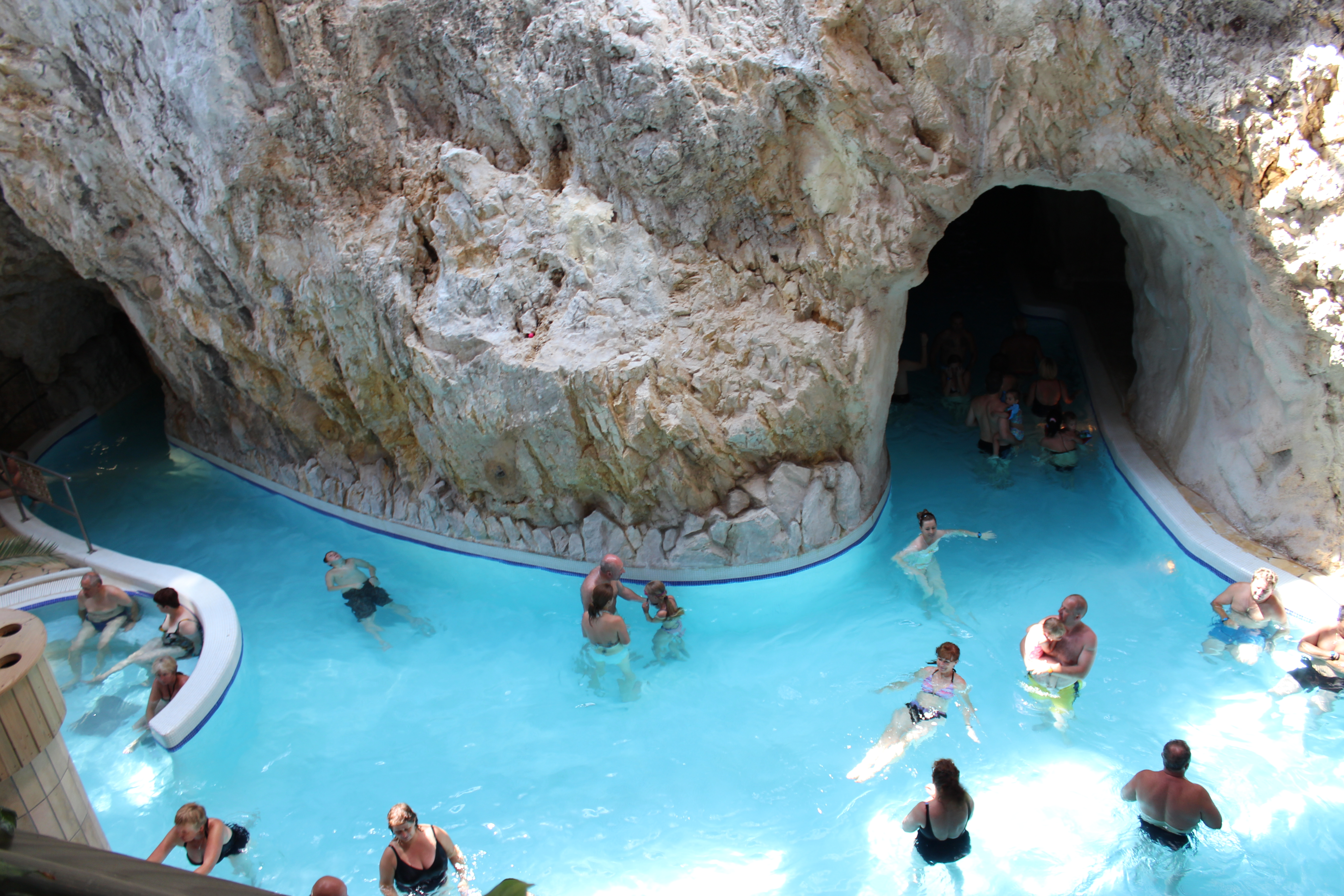 Swimming in the Cave bath